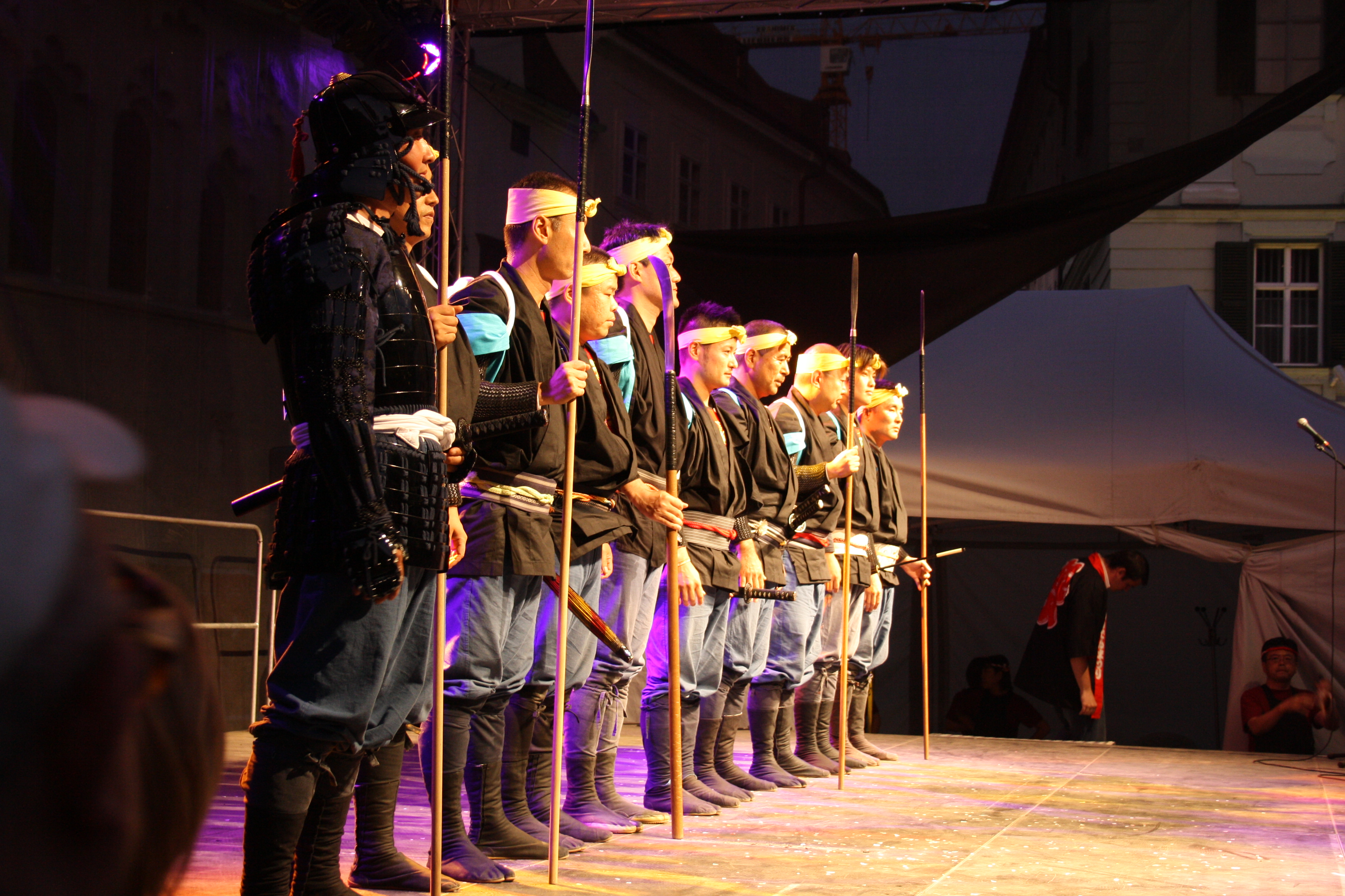 Shigou Bou-No-Te dance group standing in Bratislava Culture summer.